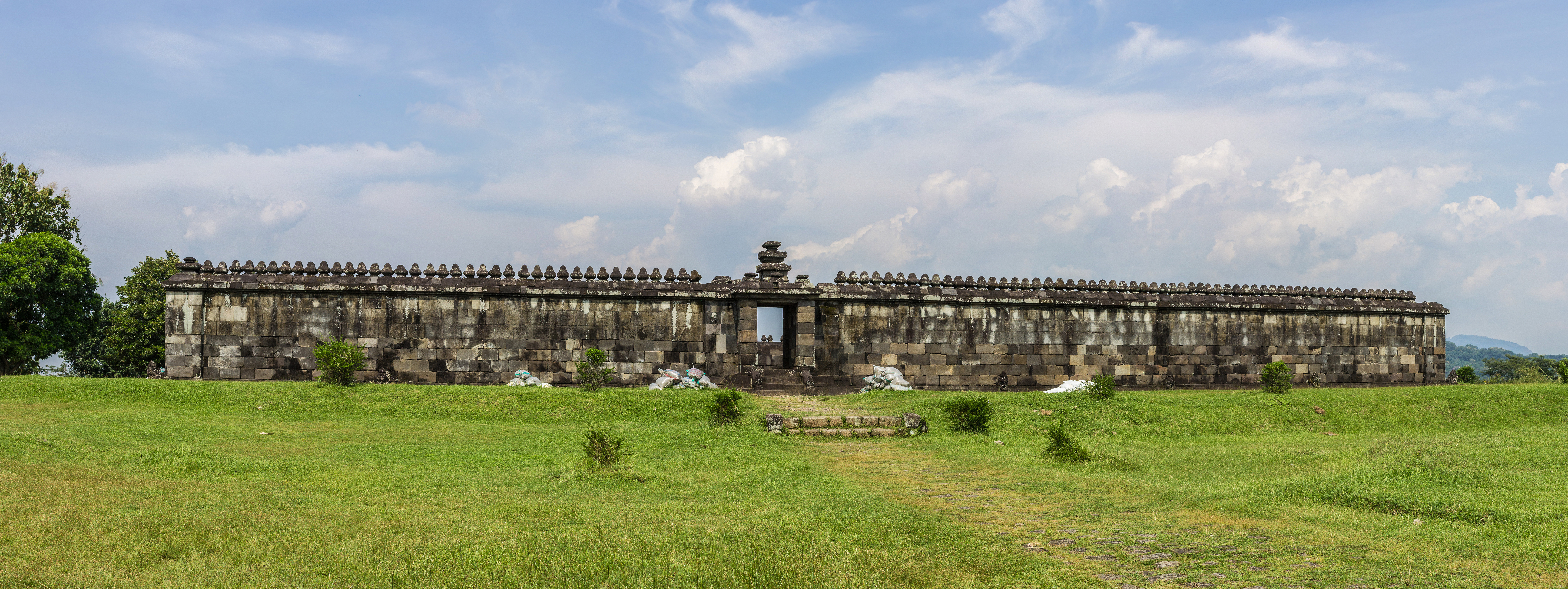 Pendopo at Ratu Boko complext, 2014-03-31